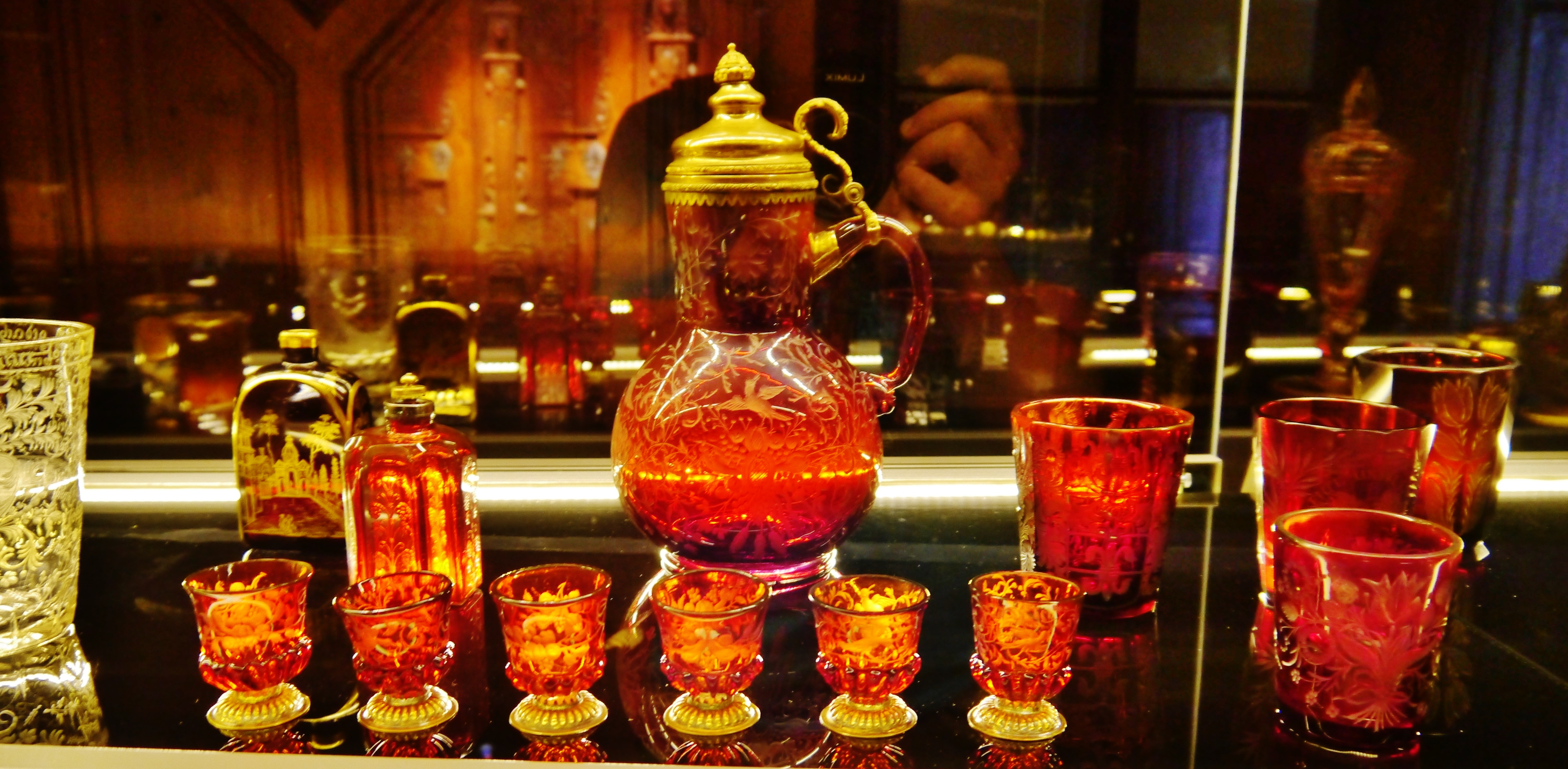 Strasser Glass Collection at Ambras Castle, Innsbruck, Tyrol, Austria